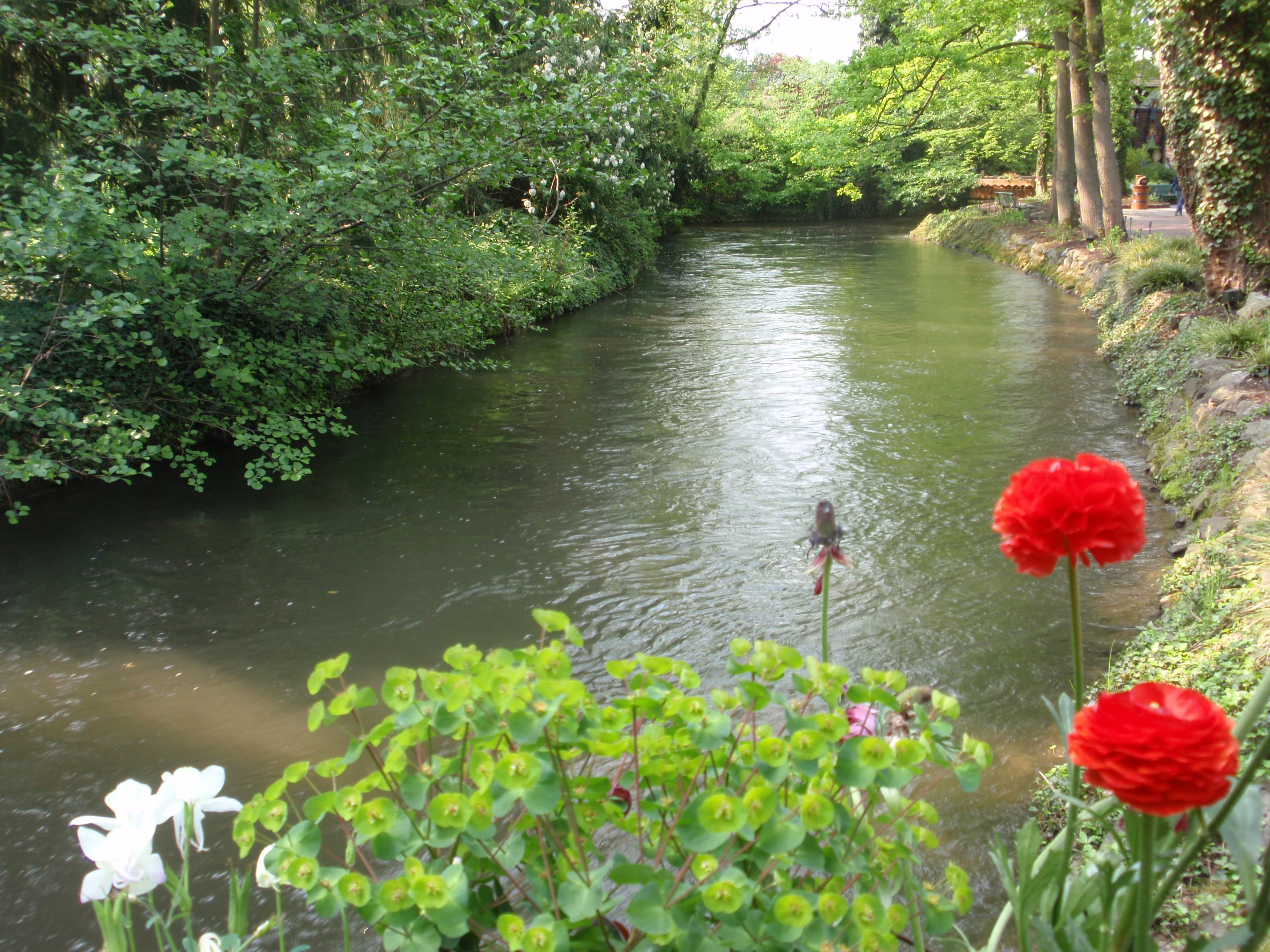 the small river Elz in the Europa-Park Rust